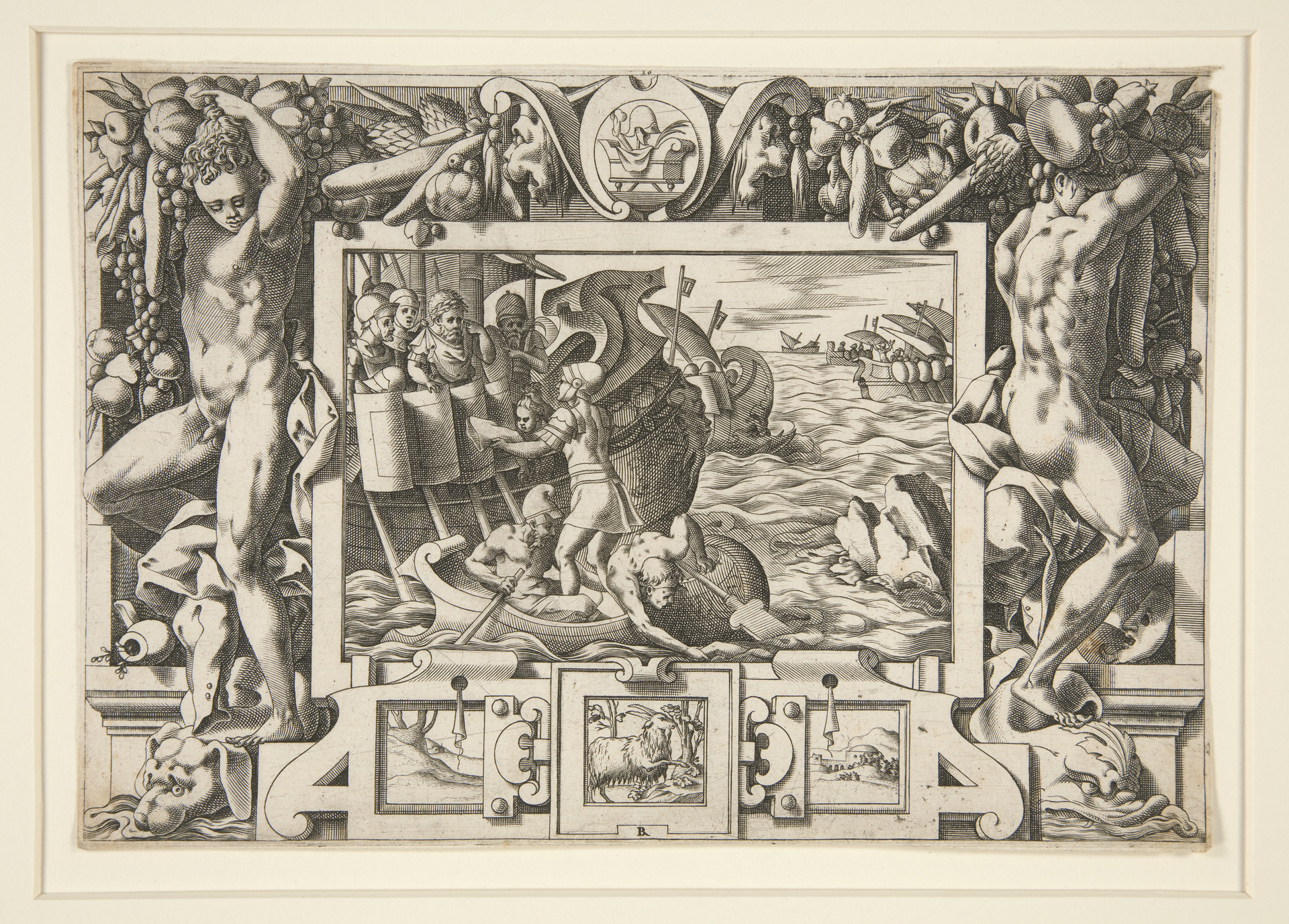 "Aeetes Accepts the Dismembered Corpse of Absyrte", from The History of Jason and The Conquest of The Golden Fleece. Engraved by René Boyvin (died 1580) after Leonard Thiry (died 1550).